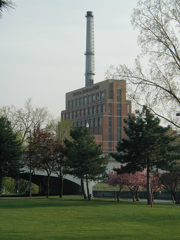 The Ottawa Street Power Station as seen from Riverfront Park. Lansing, Michigan.